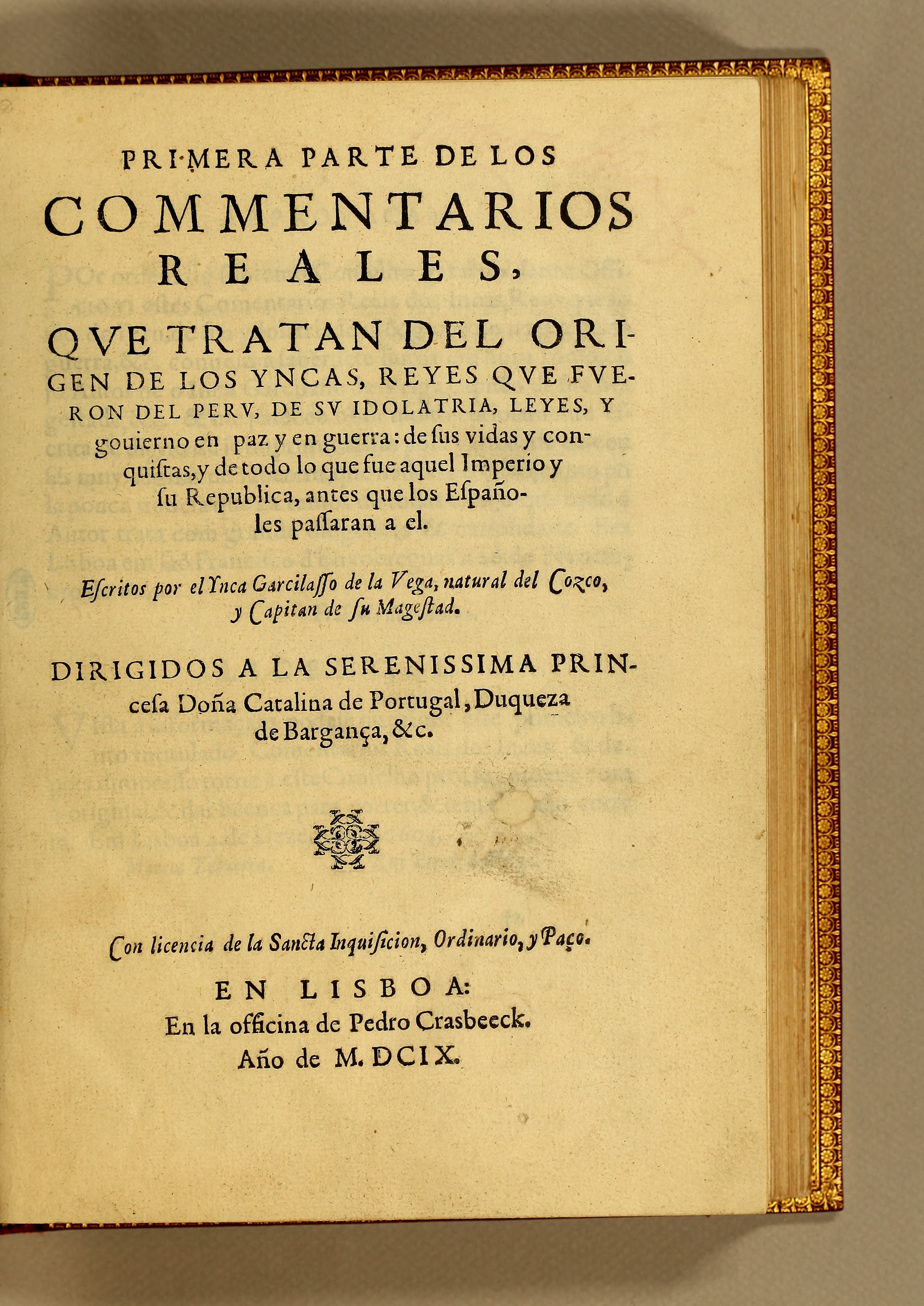 Title page of Garcilaso de la Vega's Primera parte de los commentarios reales (Lisbon, 1609)